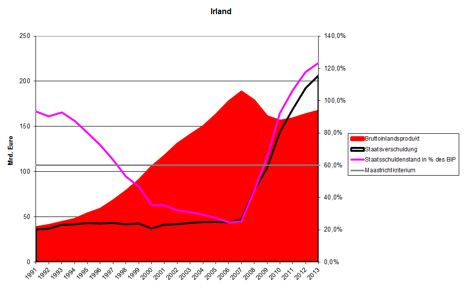 public debt, gdp, source of data for own computations ameco data from European commission